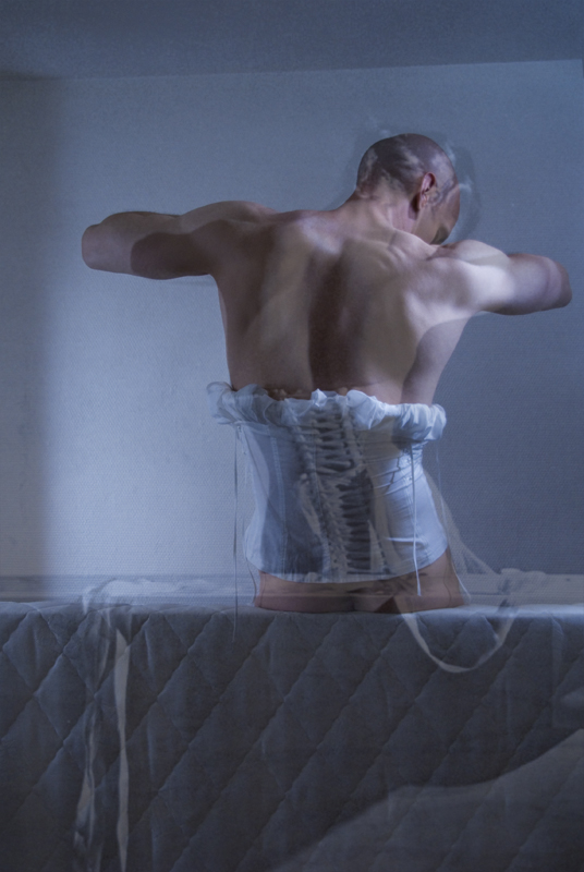 Project inspired by Horst P. Horst, a man in a corset